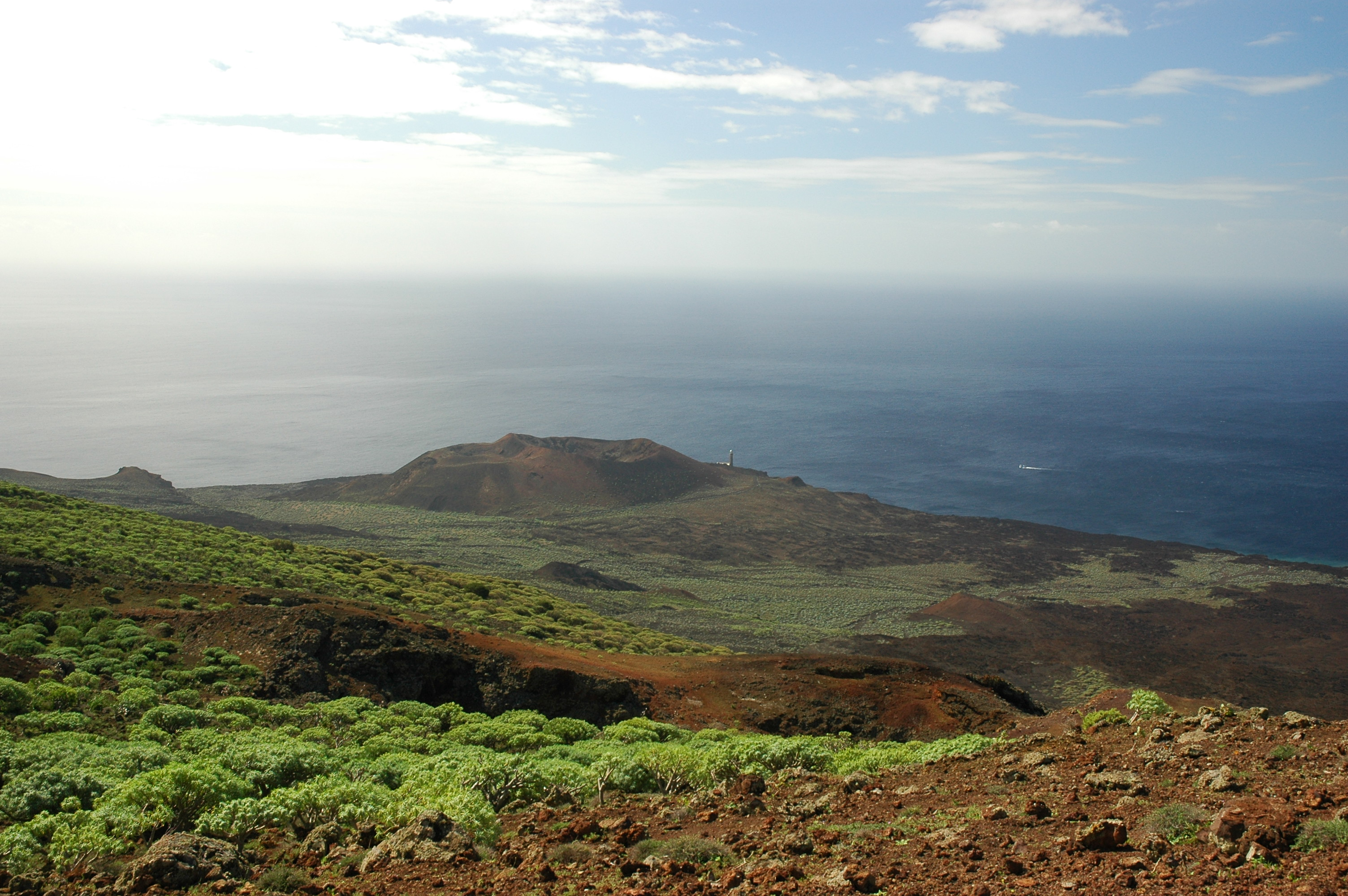 Point of La Orchilla with the lighthouse to the bottom. El Hierro (Canary Islands)